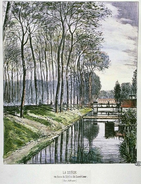 Lille : La Digue, en face de l'église du Sacré-Coeur (Rue Solférino) date : circa 1895 [1895] dimensions : 33 x 25 cm. technique : lithographie